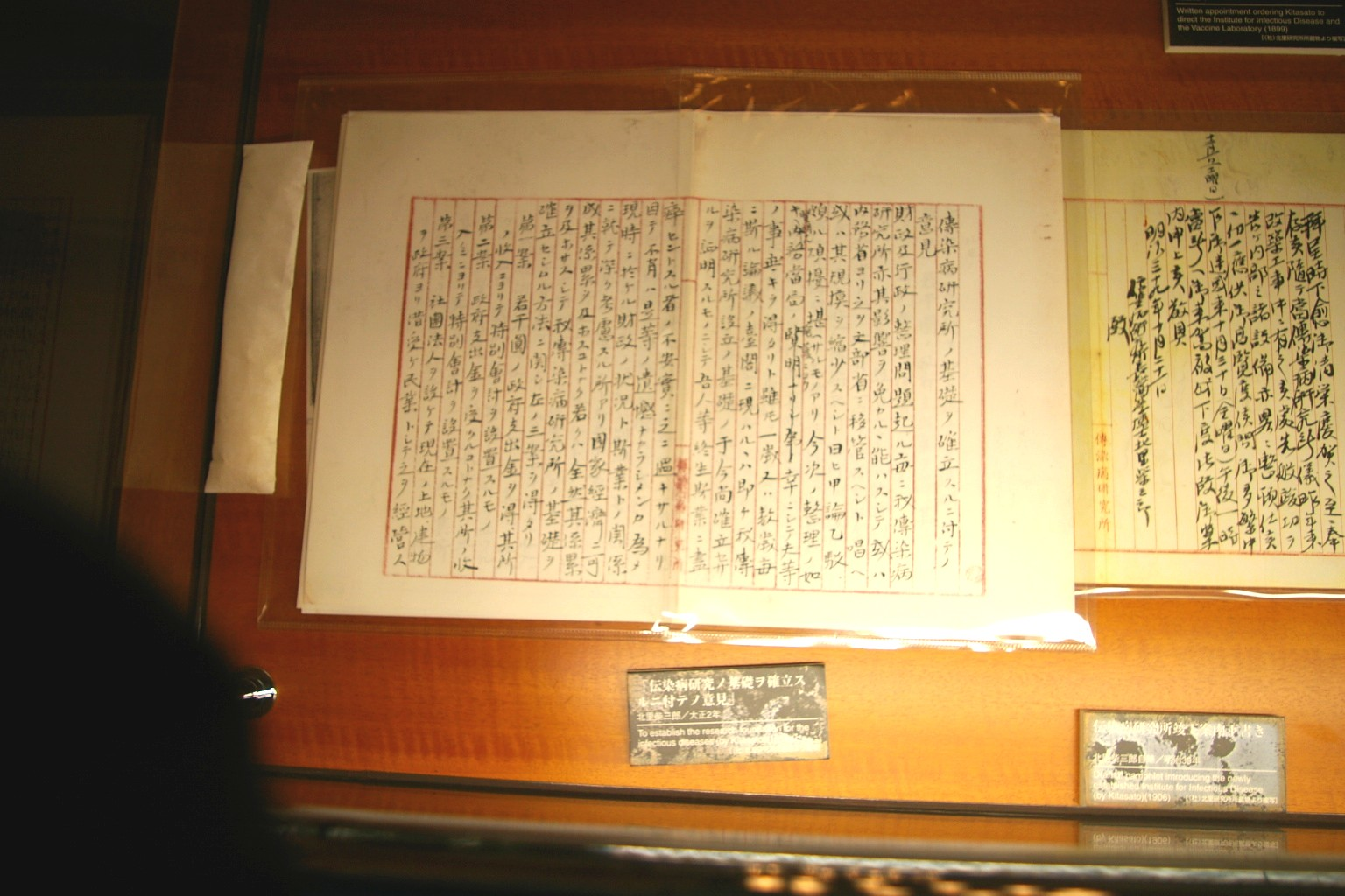 It was taken by me in the Medical Museum Tokyo University, Tokyo Japan.